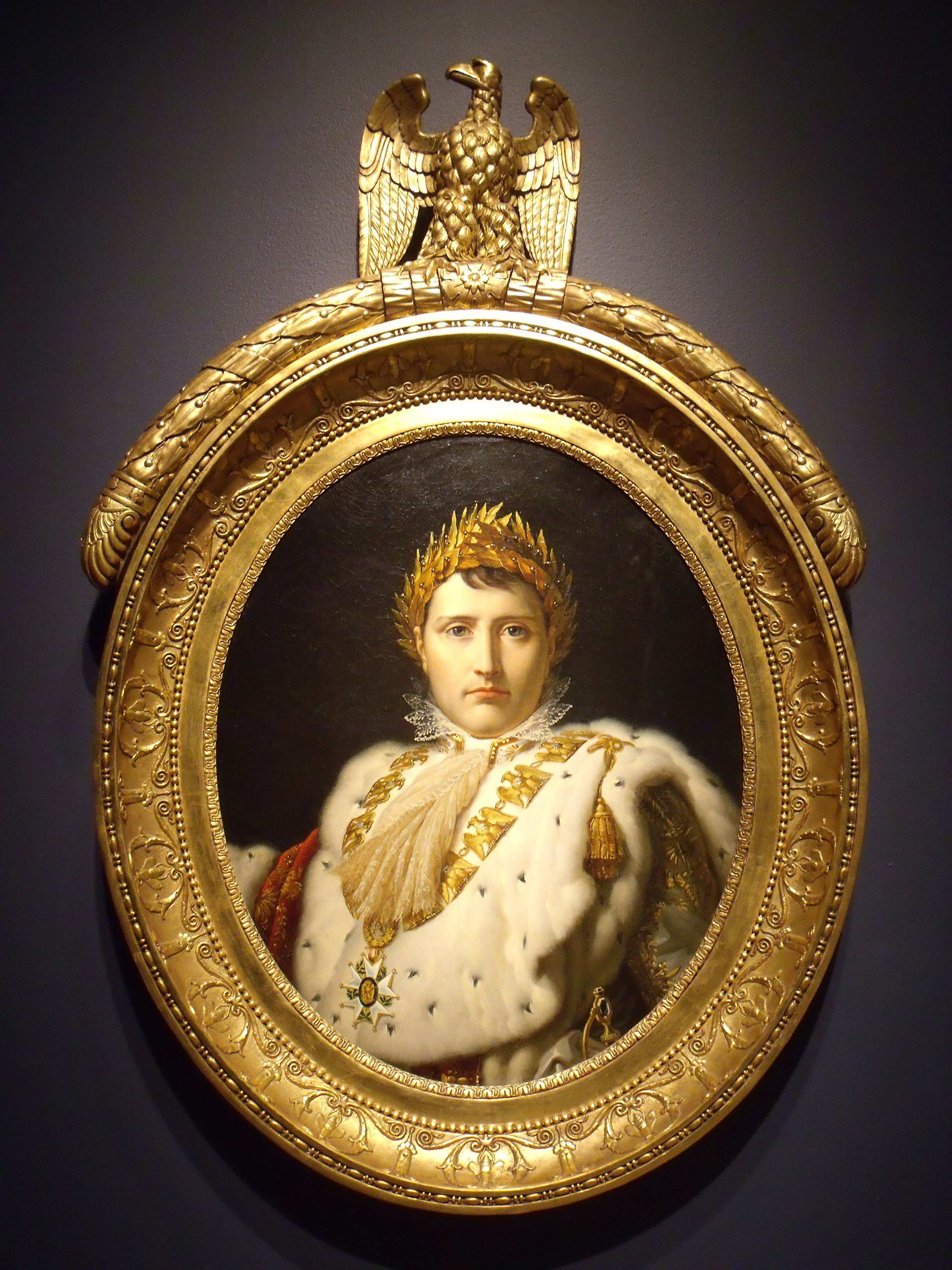 Bust-lenght portrait of Napoleon the first in Coronation robe